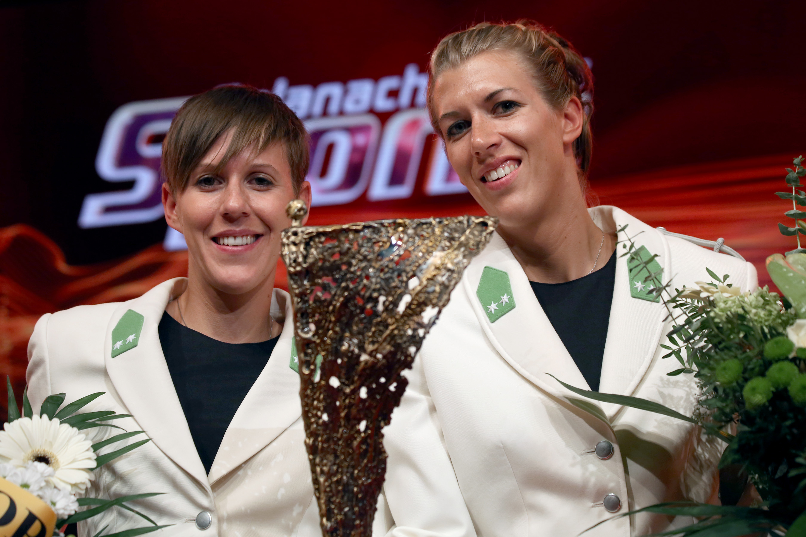 Doris and Stefanie Schwaiger: Team of the Year at the award show for the Austrian Austrian Sportspersonalities of the year 2013 (Austria Center Vienna).